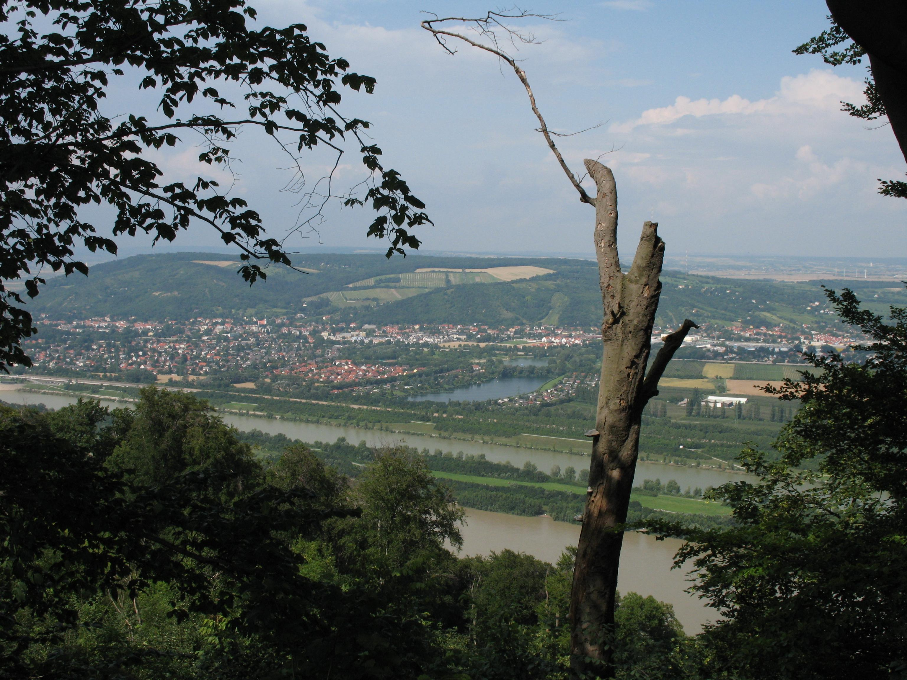 View on Langenzersdorf from Leopoldsberg in Vienna, Austria